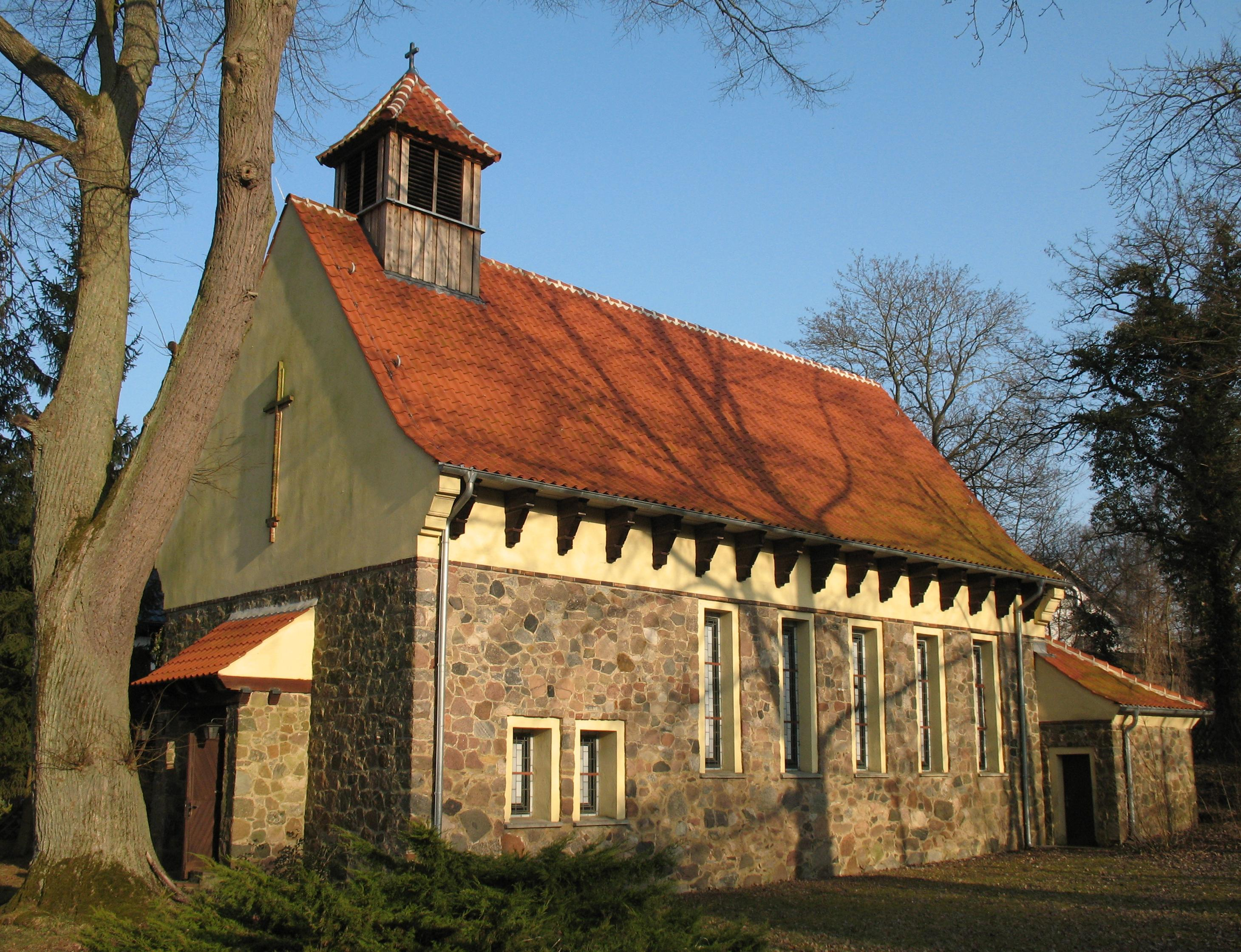 Church in Stechlin-Neuglobsow in Brandenburg, Germany